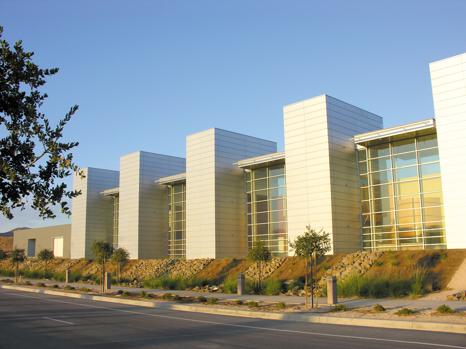 Front facade of the Western Center for Archaeology & Paleontology in Hemet, California.